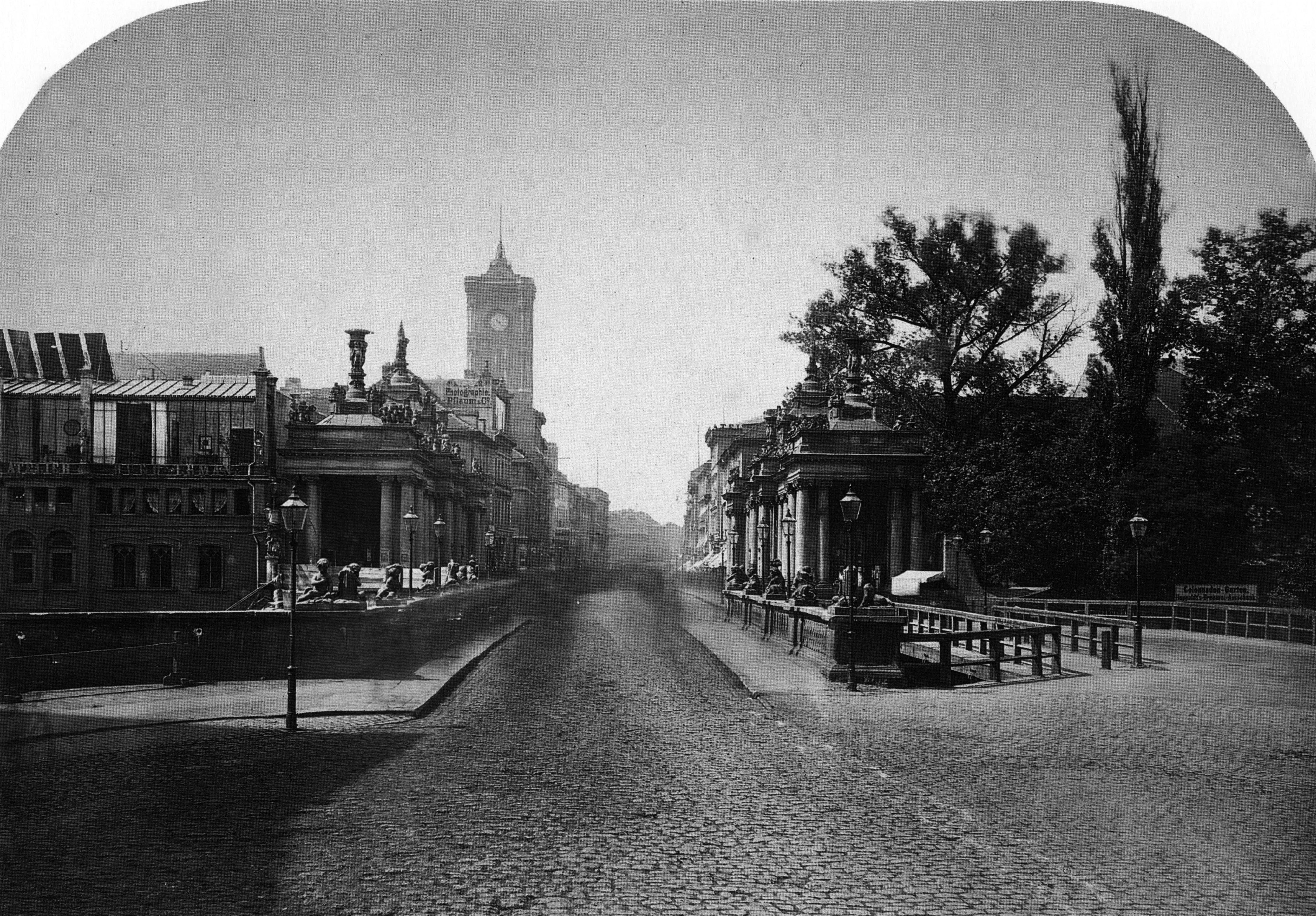 Königsbrücke (“king's bridge”) on Königsstraße (now Rathausstraße), crossing the Berlin's old fortification moat, which was later filled up. Visible in the background is the Berlin City Hall.